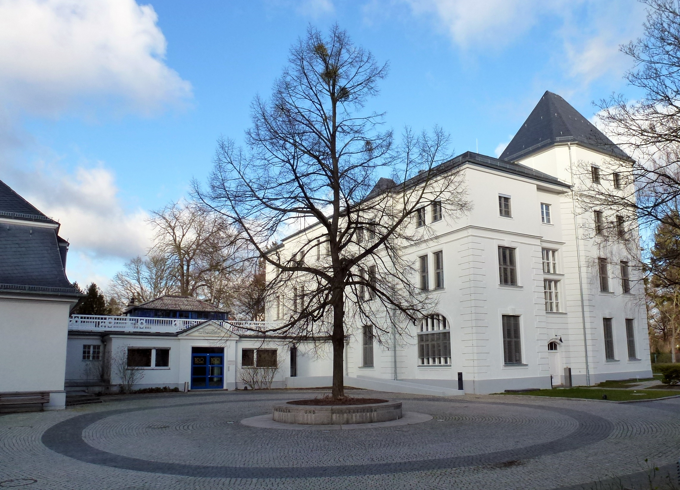 Berlin-Dahlem Fritz-Haber-Institut